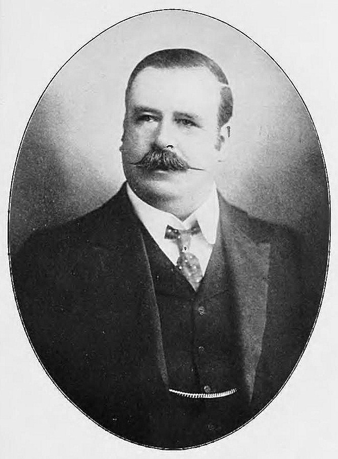 Illustration from scanned copy of the PD book Picturesque New Zealand by Paul Gooding published in 1913